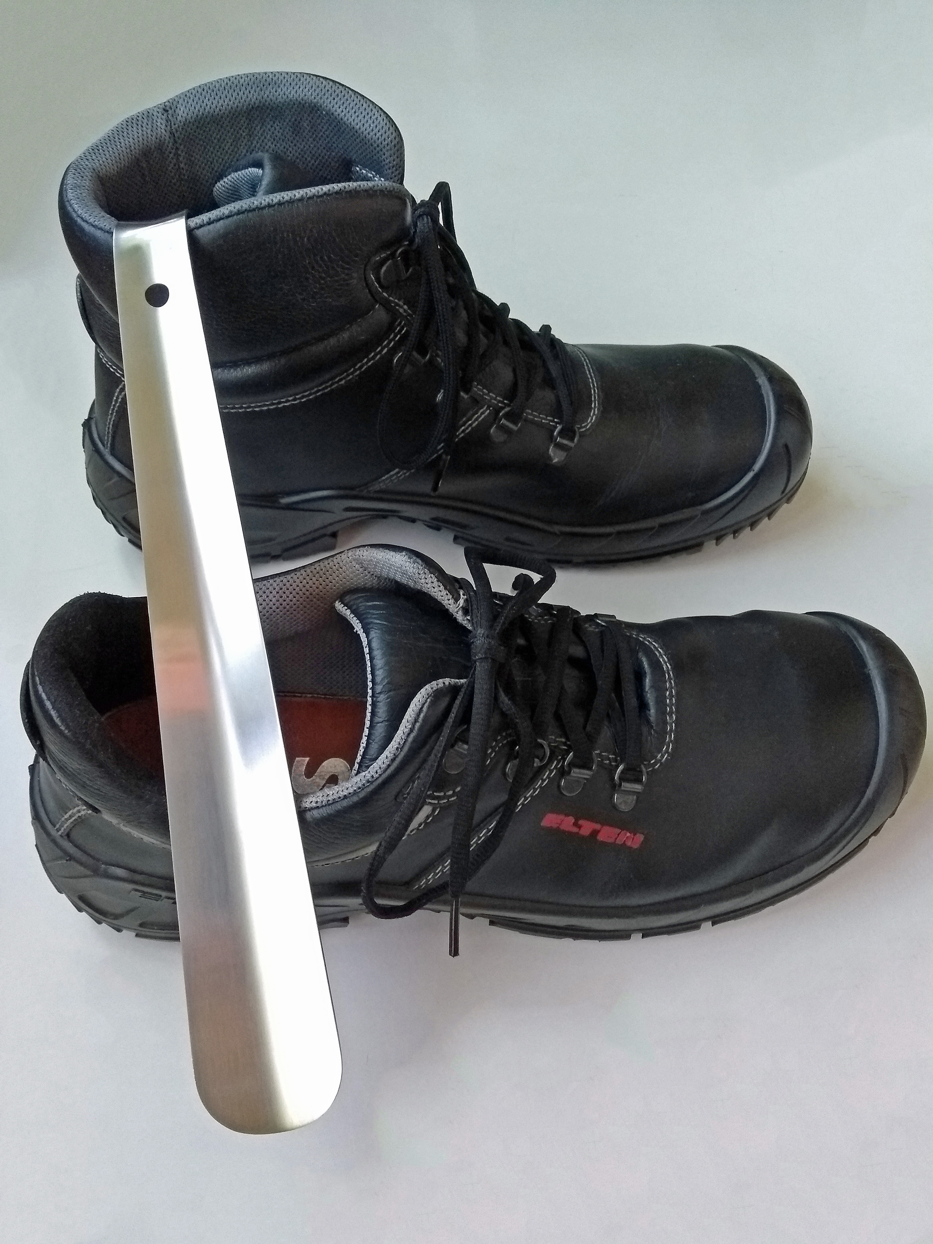 A heavy duty long stainless steel shoehorn, an Elten Renzo Low Class S3 safety shoe (front) and Elten Renzo Mid Class S3 safety boot (rear). This safety footwear complies to the European EN ISO 20345:2011 standards.